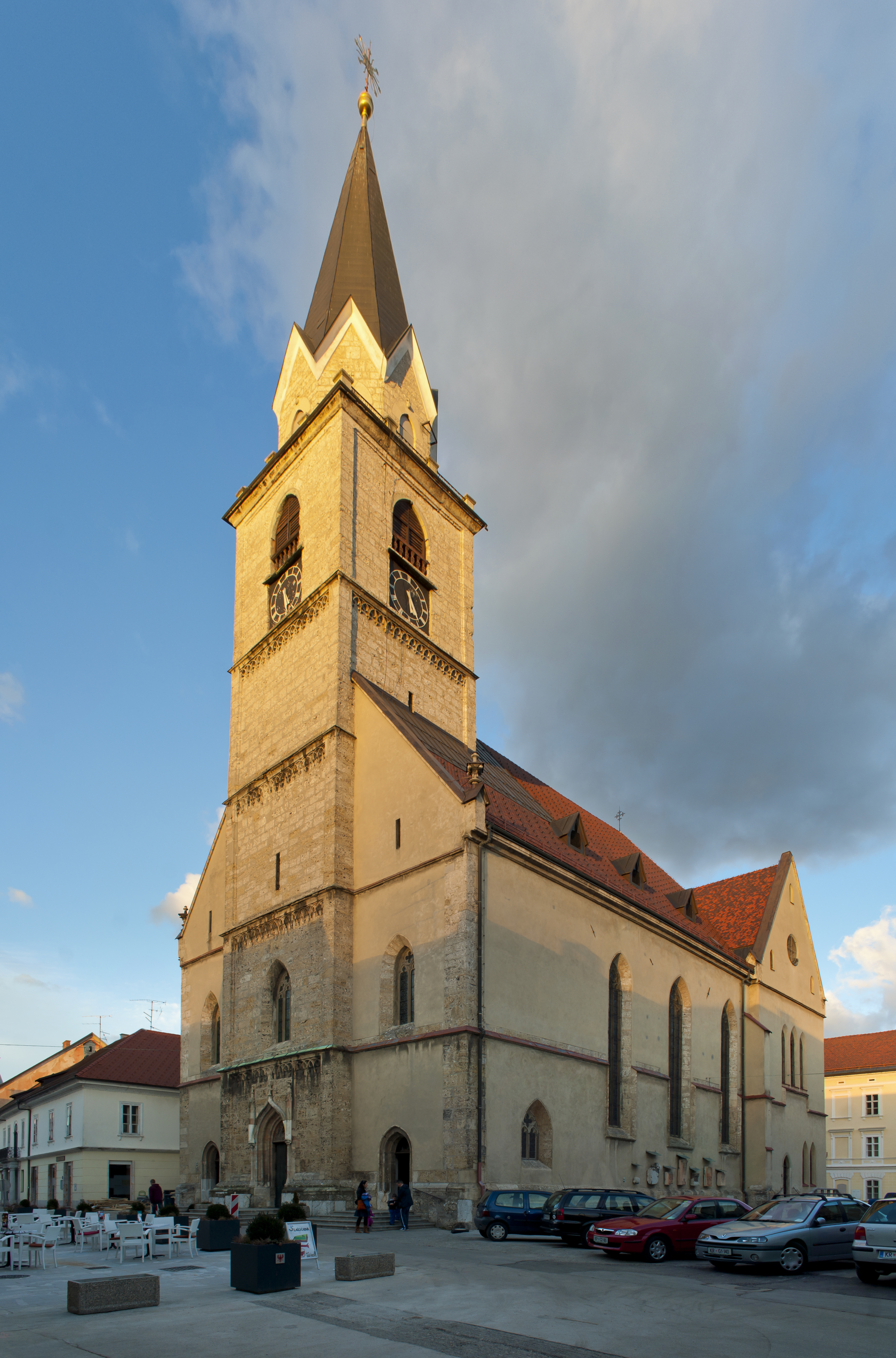 St. Cantianus Church in KranjSlovenščina: Sv. Kancian v Kranju